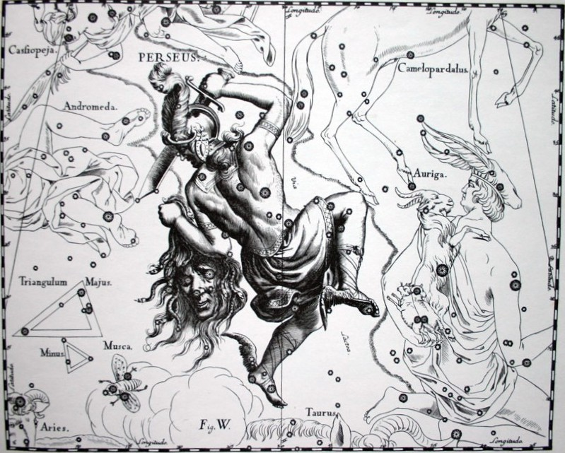 The Perseus (constellation) constellation from Uranographia by Johannes Hevelius. The view is mirrored following the tradition of celestial globes, showing the celestial sphere in a view from "outside"